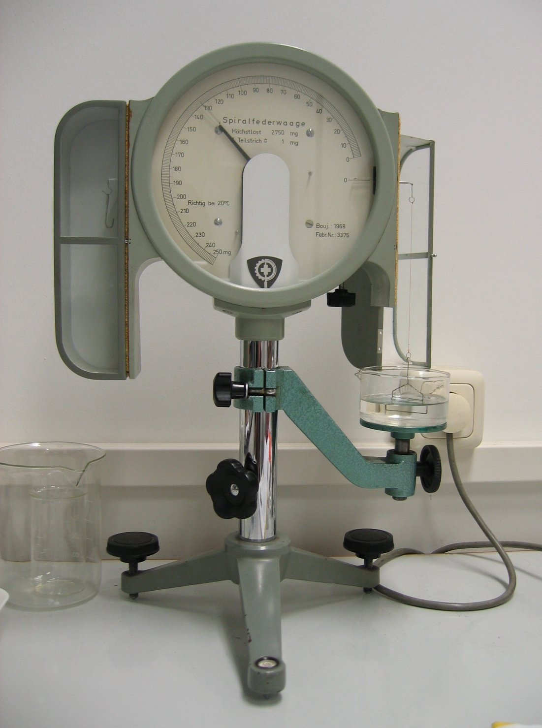 Measurement of surface tension.